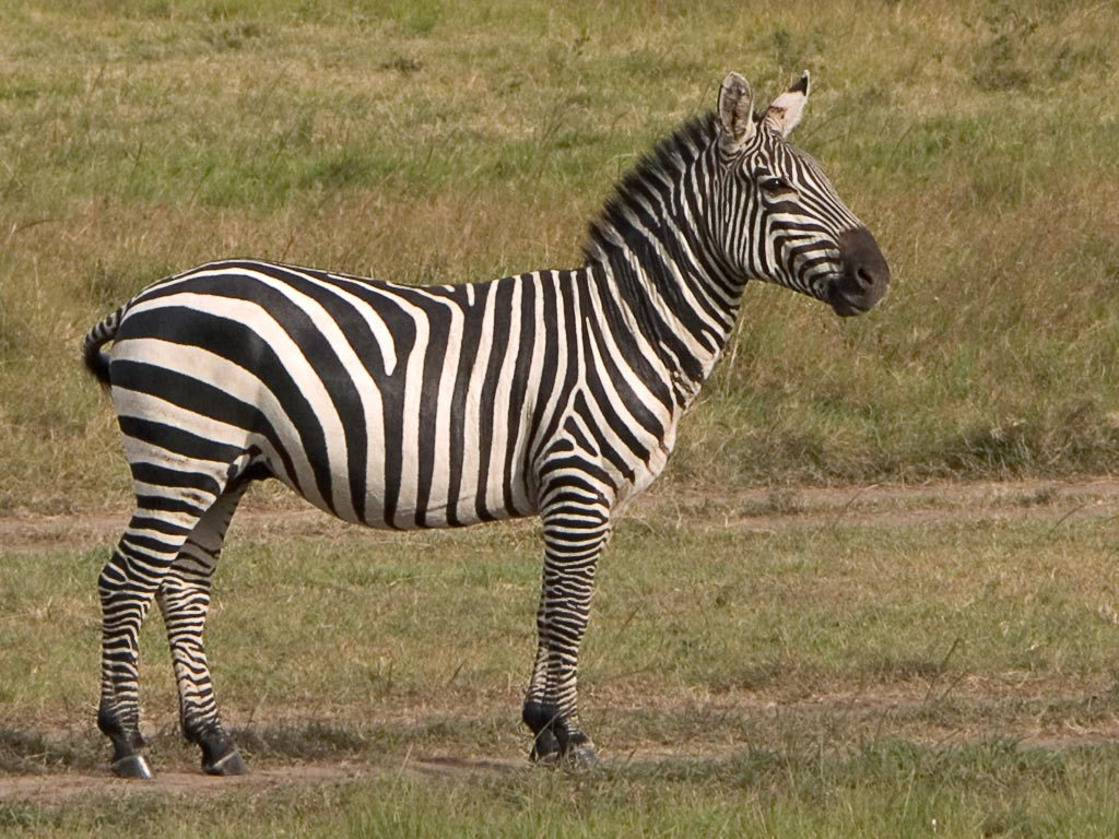 Zebra standing